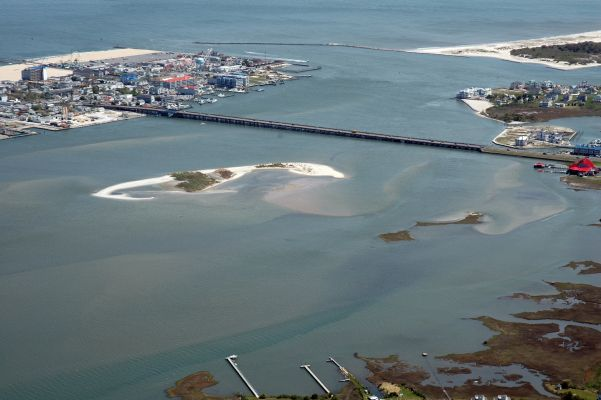 Aerial view of Harry W. Kelley Memorial Bridge over the Sinepuxent Bay in Ocean City, Maryland